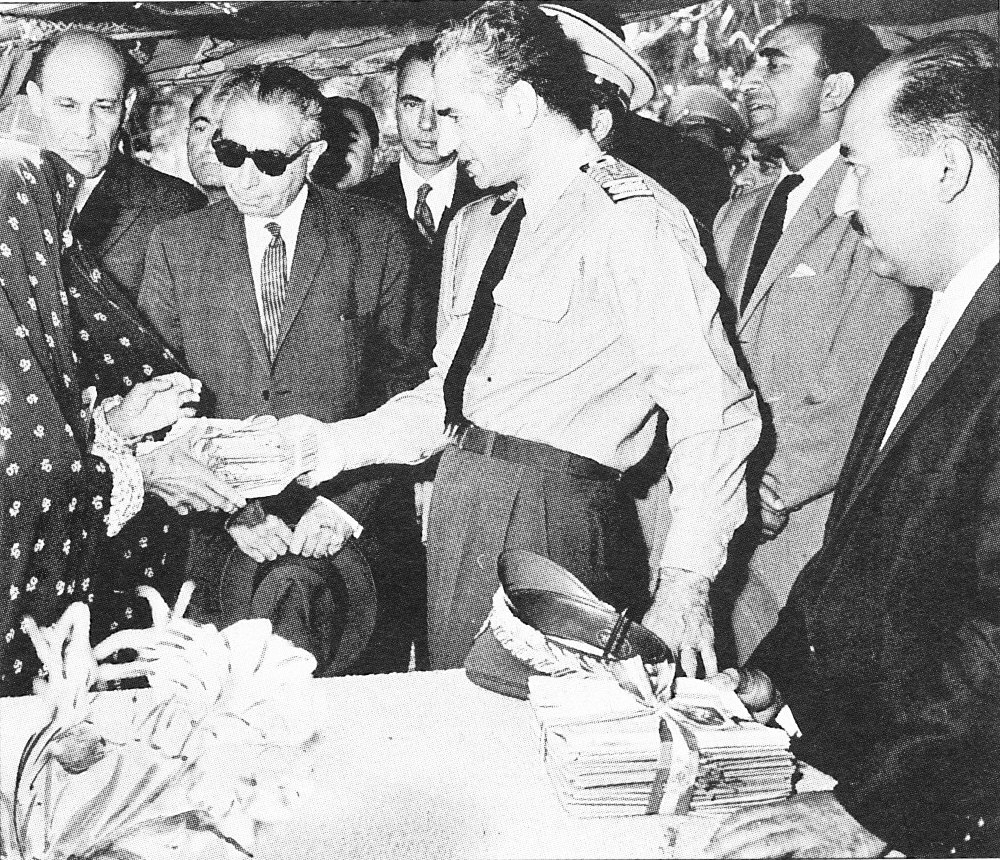 Shah Mohammad Reza Pahlavi, prime minister Ali Amini and minister for agricultur Hassan Arsanjani distribut land ownership documents in Kermanshah, 1961; start of land reform program. The persons standing in front from the right: Hassan Arsanjani Minister of Agriculture, Assadollah Alam Minister of Court, the Shah, Ali Amini the Prime Minister, and last person on the right AbdolHamid Hakimi Permanent Undersecretary of Ministry of Agriculture